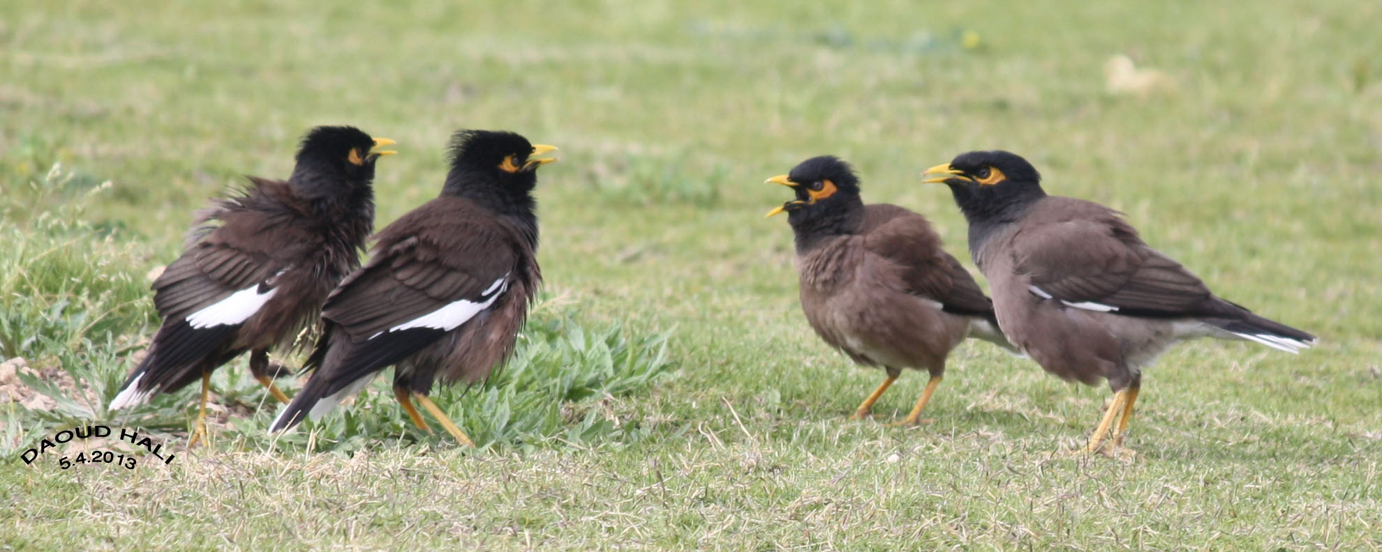 Common Myna